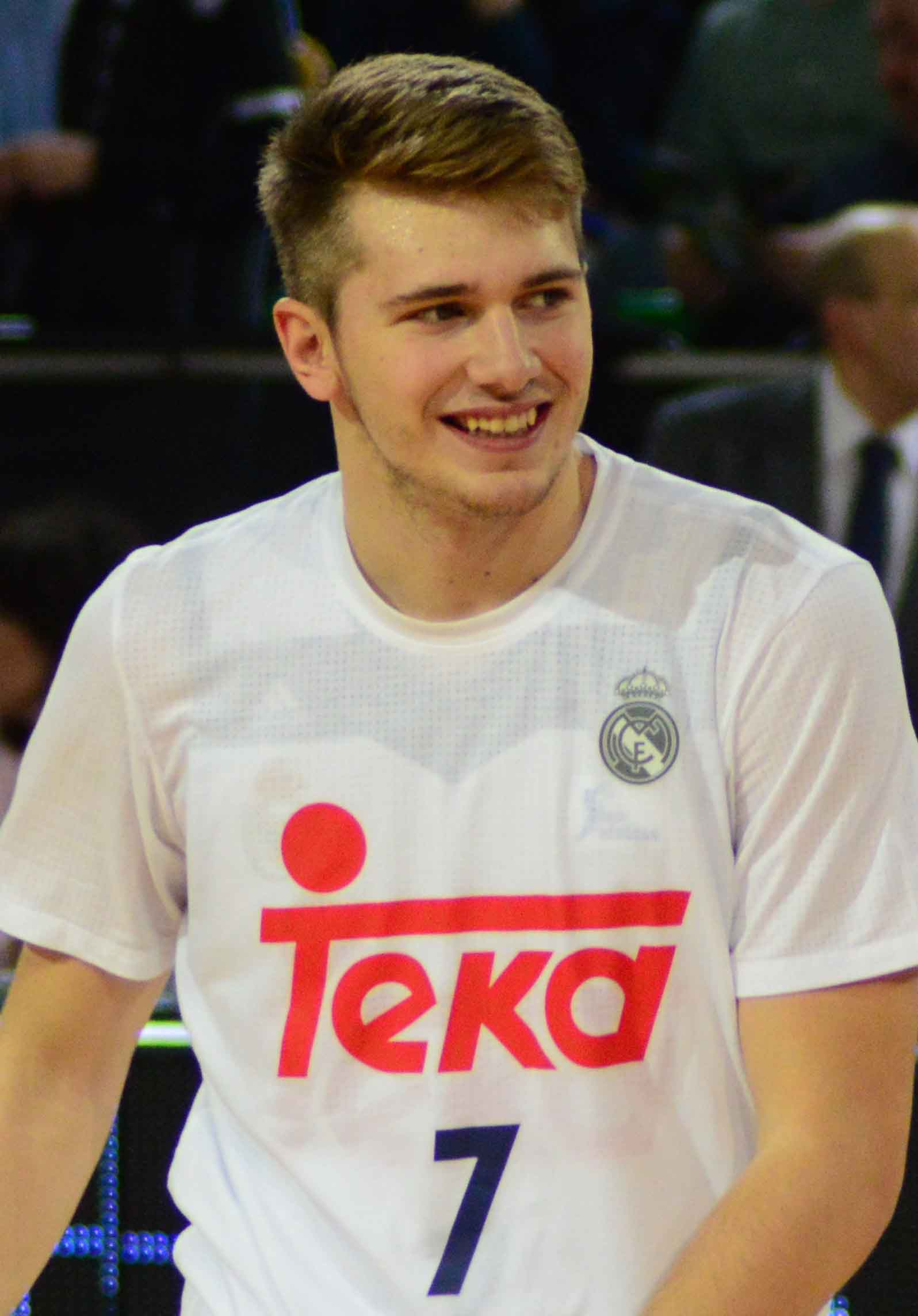 Luka Dončić playing for Real Madrid in 2016